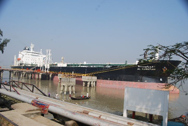 Foreign cargo ship "Al Kuzaimah" in Chittagong Port.